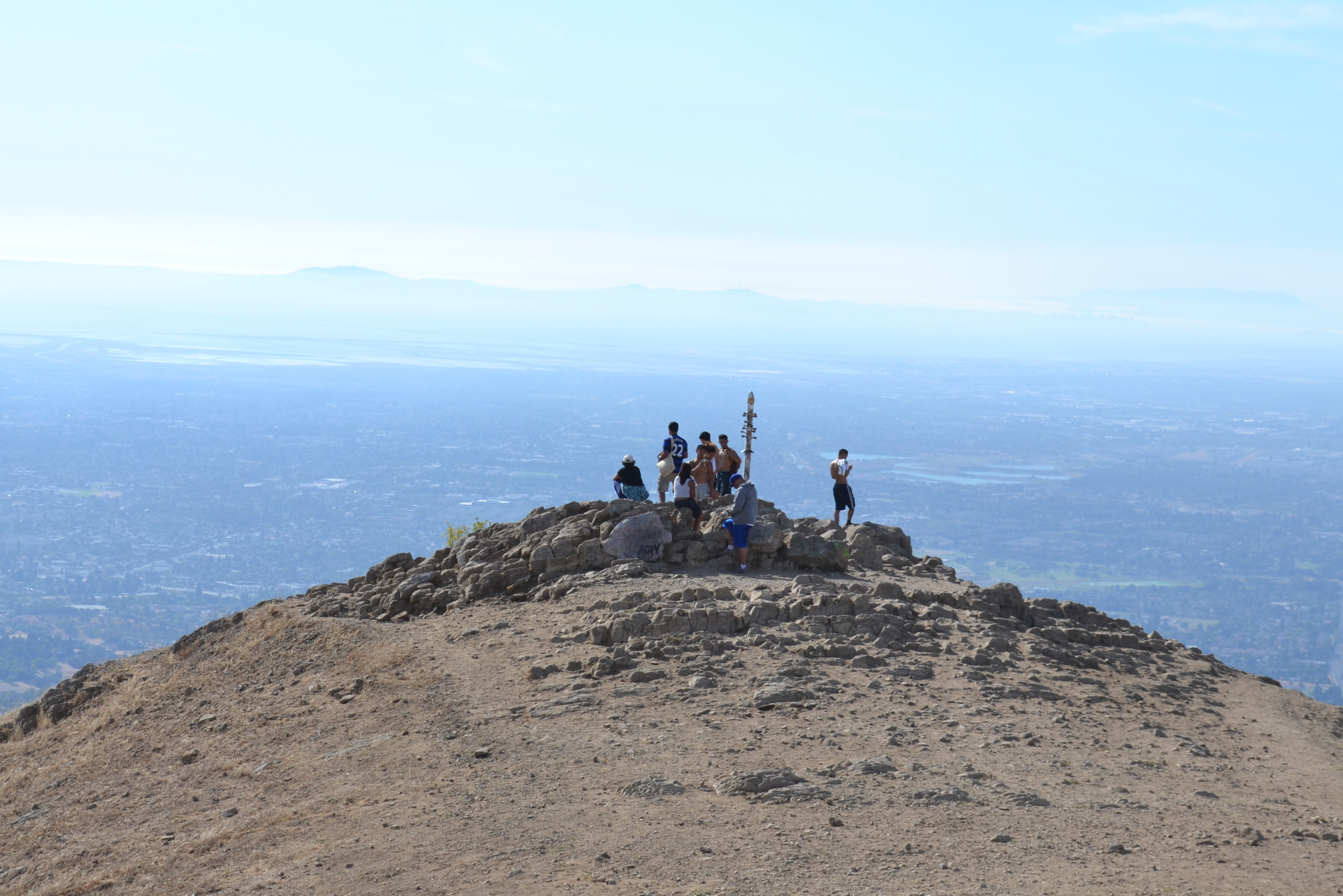 Summit of Mission Peak